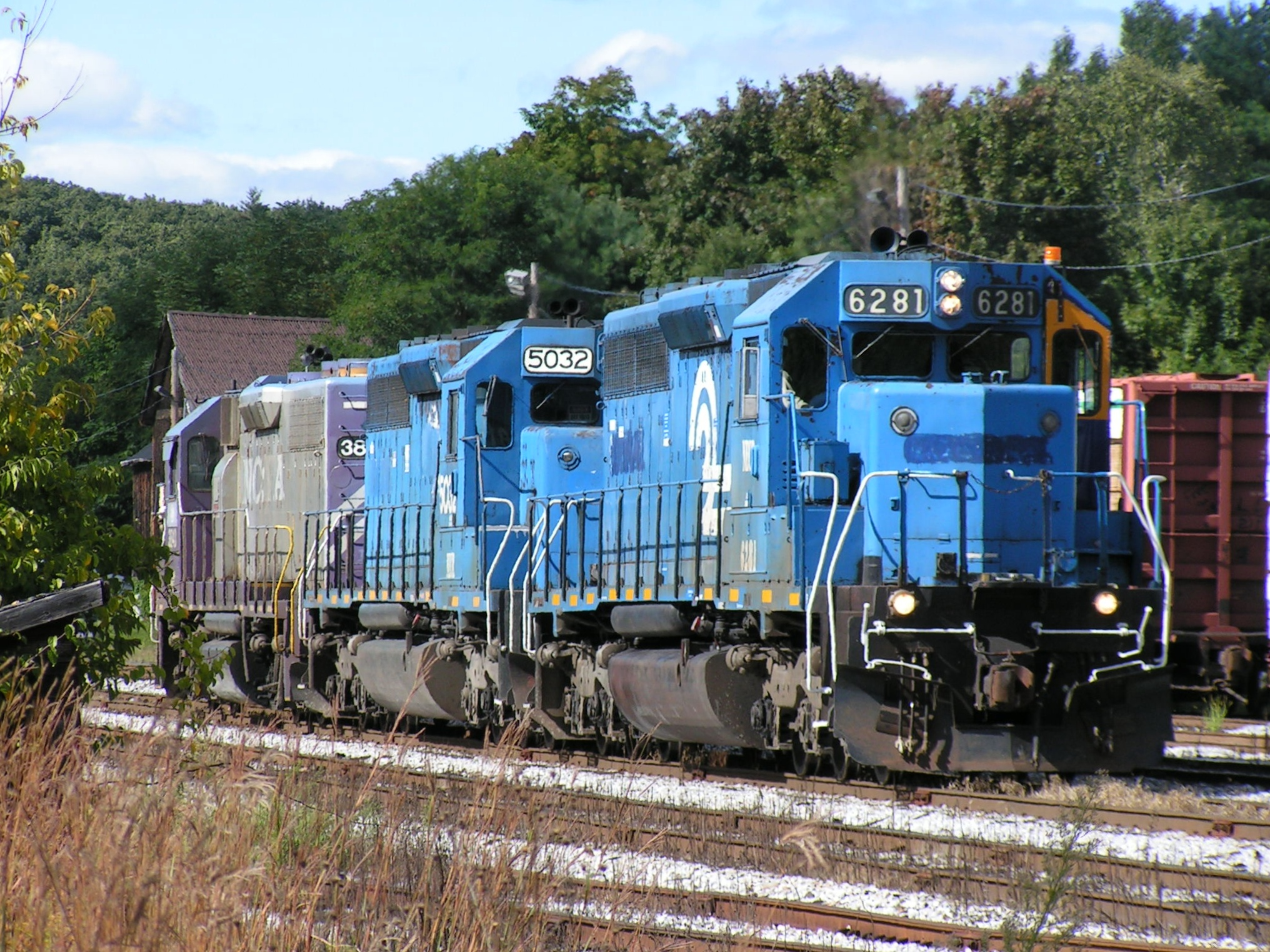 The horizontal compression is due to the telephoto lens.